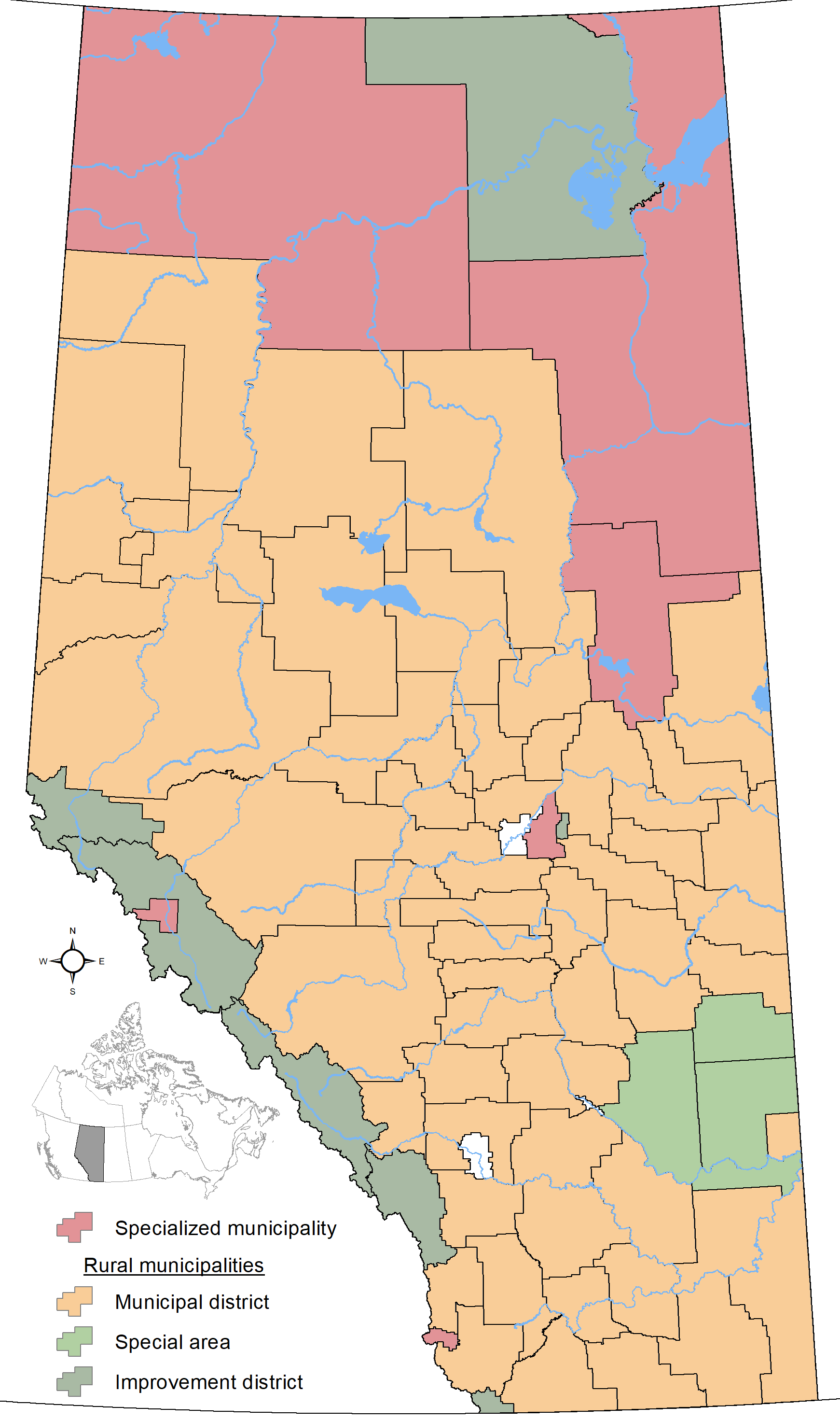 Map showing locations of Alberta's 6 specialized municipalities and 74 rural municipalities by type (63 municipal districts, 3 special areas and 8 improvement districts) as of October 2013, with base reference features (major lakes and rivers).